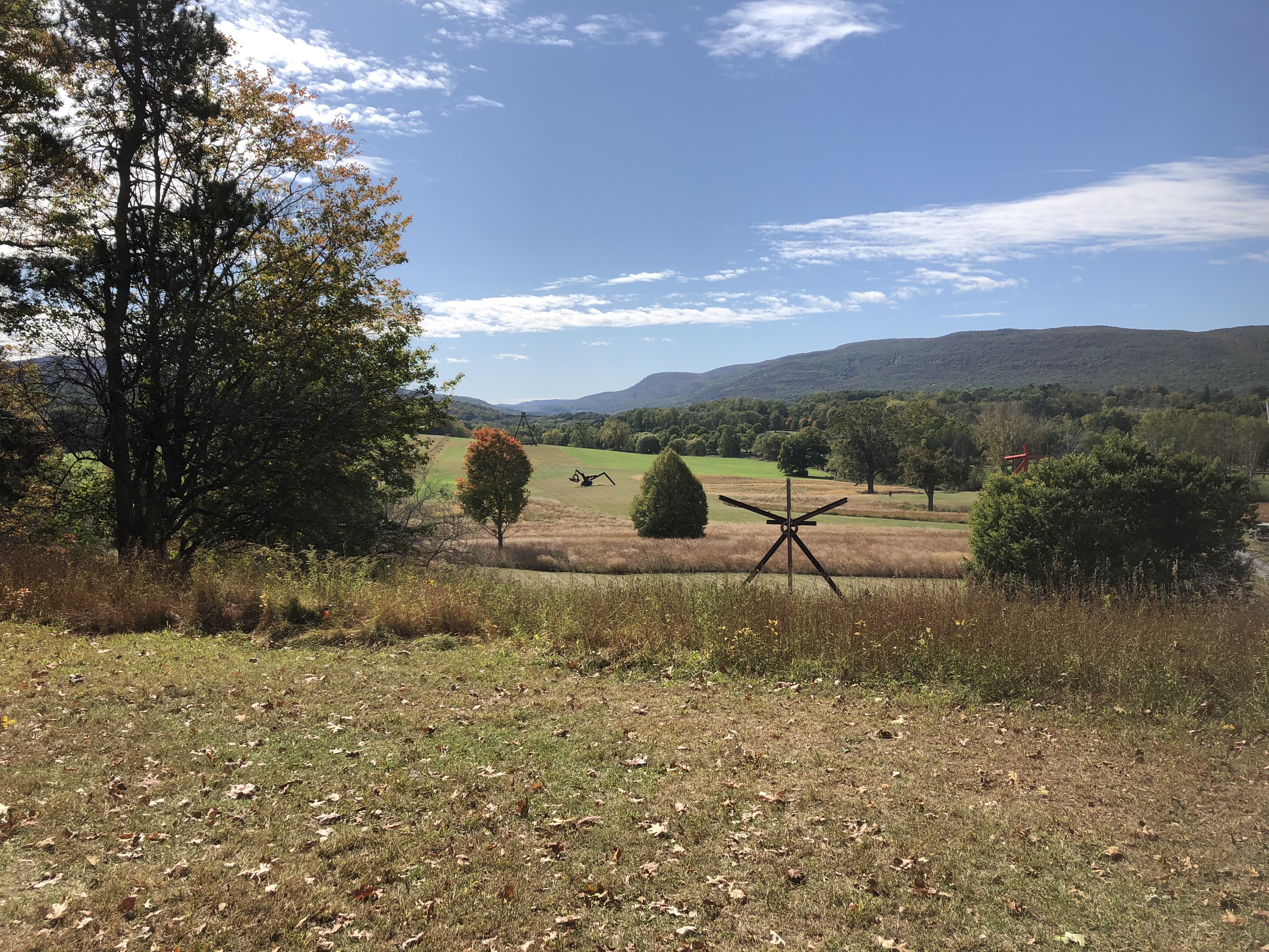 View of central prairie with di Suvero sculptures.